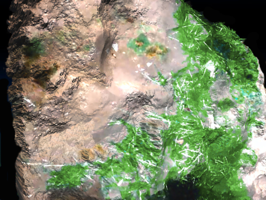 Agardite(-Ce) from Lavrio